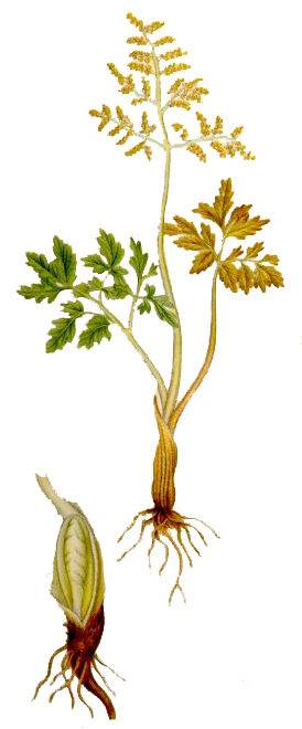 Botrychium multifidum (syn. Botrychium matricariae)